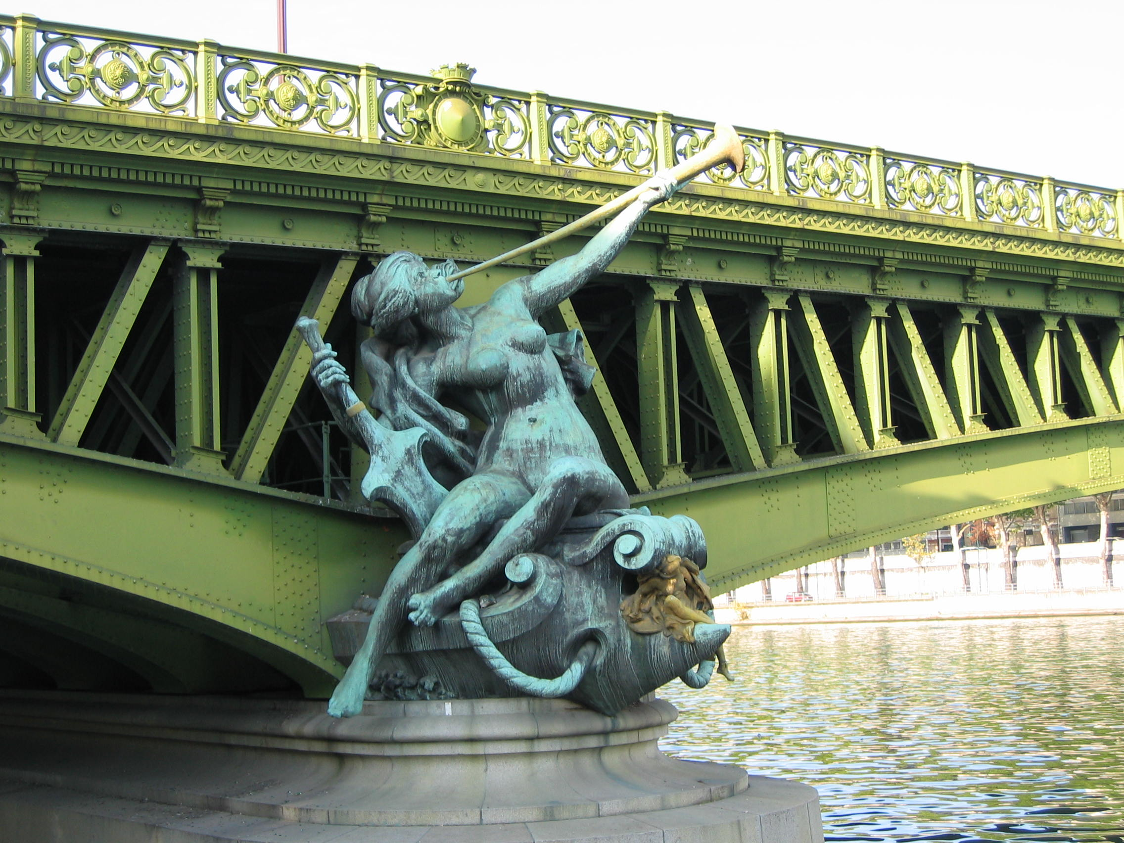 "L'abondance", statue of the "pont Mirabeau", in Paris, by Jean-Antonin Injalbert (1897). This statue is on the left side of the Seine, sitting on a front of a virtual boat going upwards. Picture : Gérard Delafond